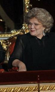 Elena Obraztsova in 2011